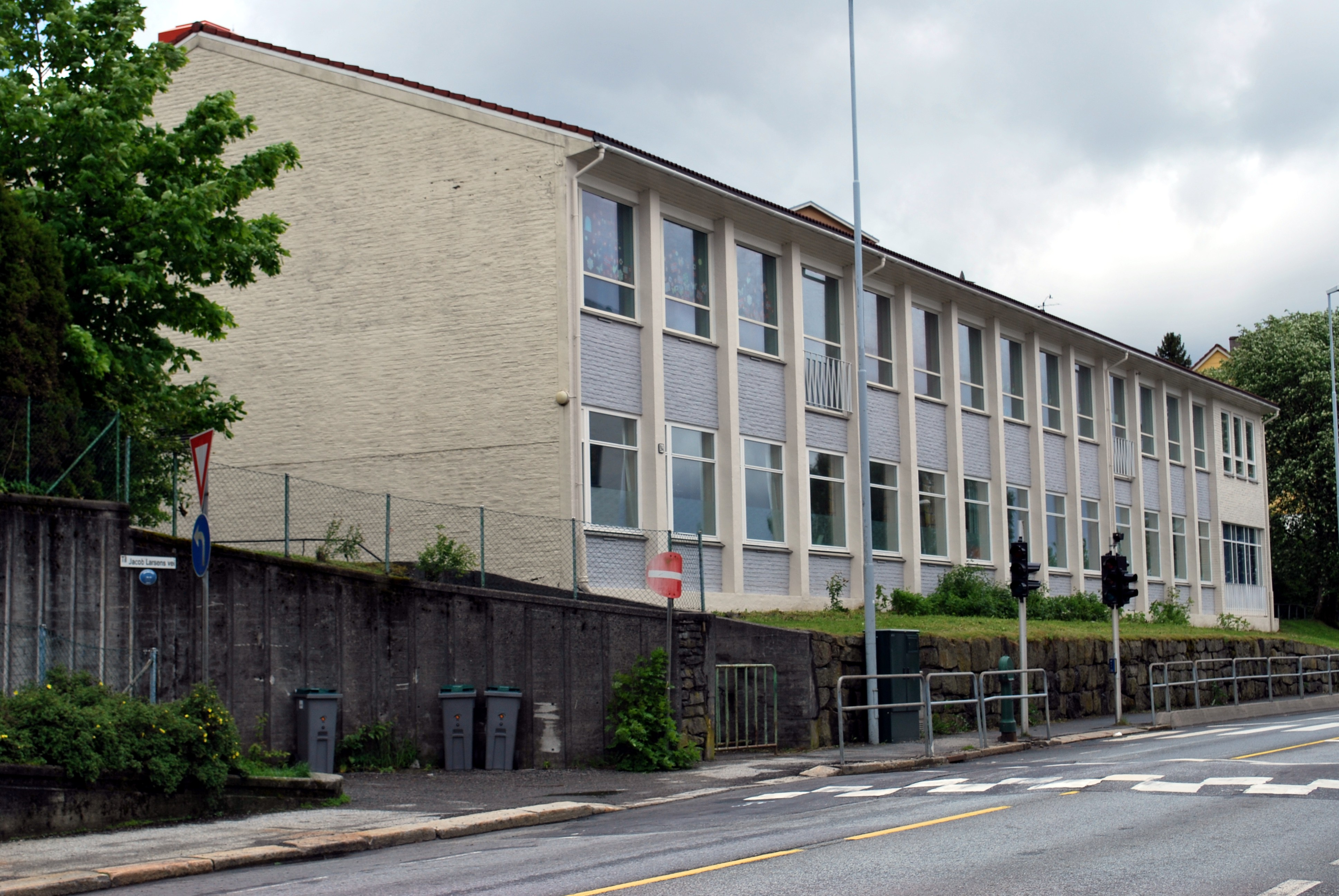 Holen skole at laksevåg in Bergen.